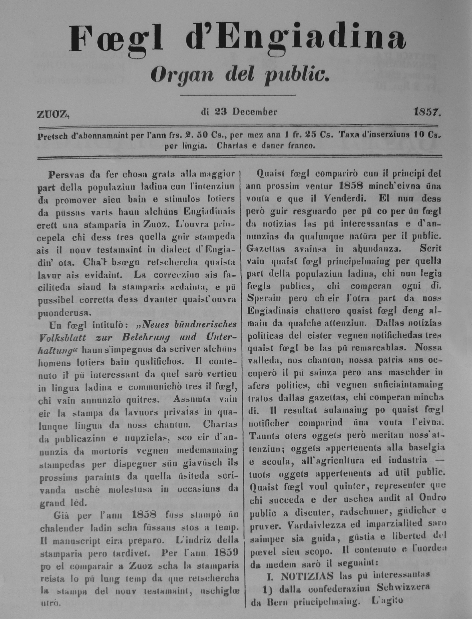 First page of the former Swiss newspaper Foegl d'Engiadina